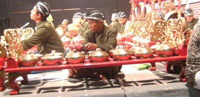 Bonang Penerus